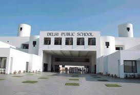 Delhi Public School, Patna, as seen from the front